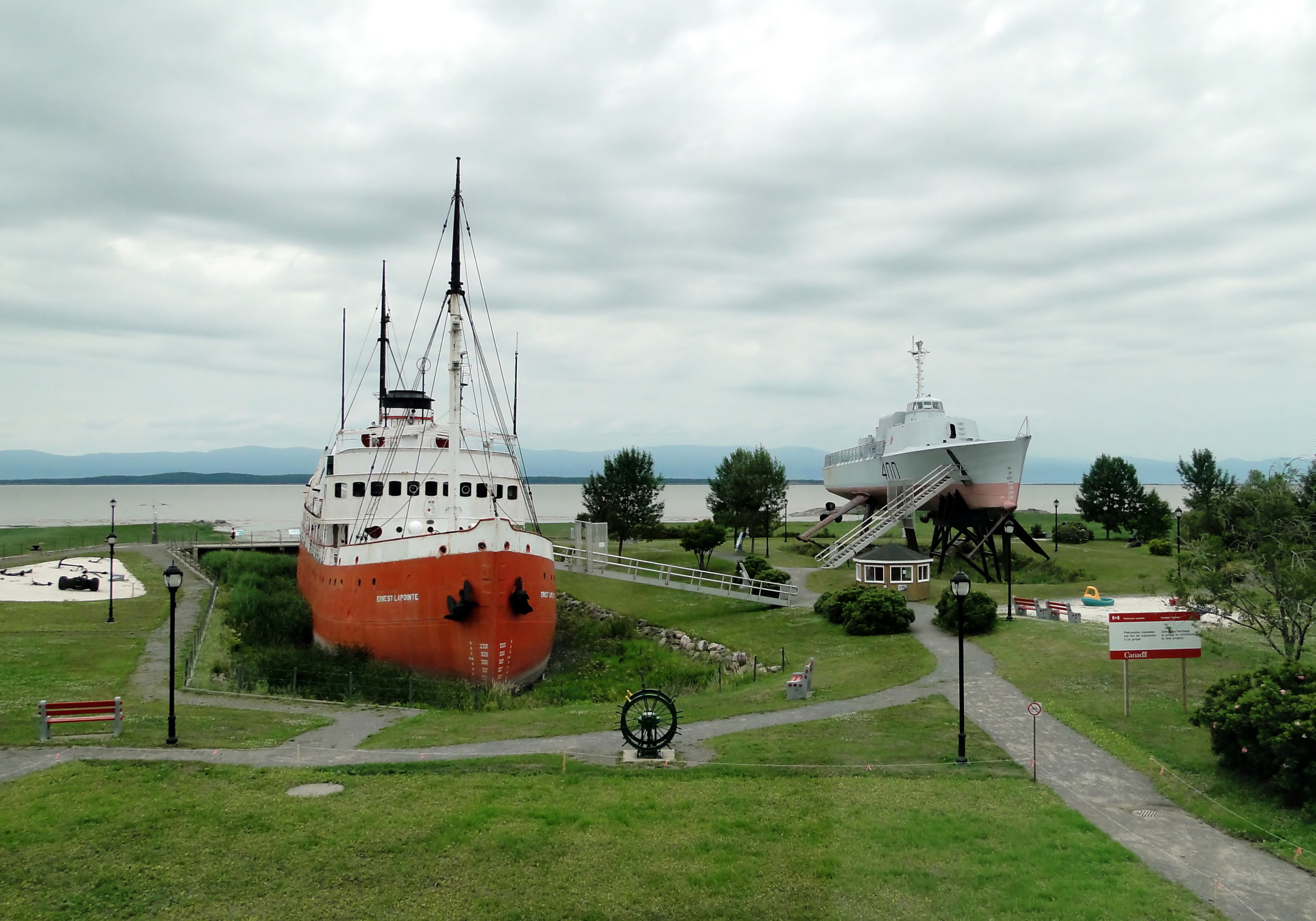 The Ernest Lapointe icebreaker and the HMCS Bras d'Or at the Musée maritime du Québec, Province of Quebec, Canada